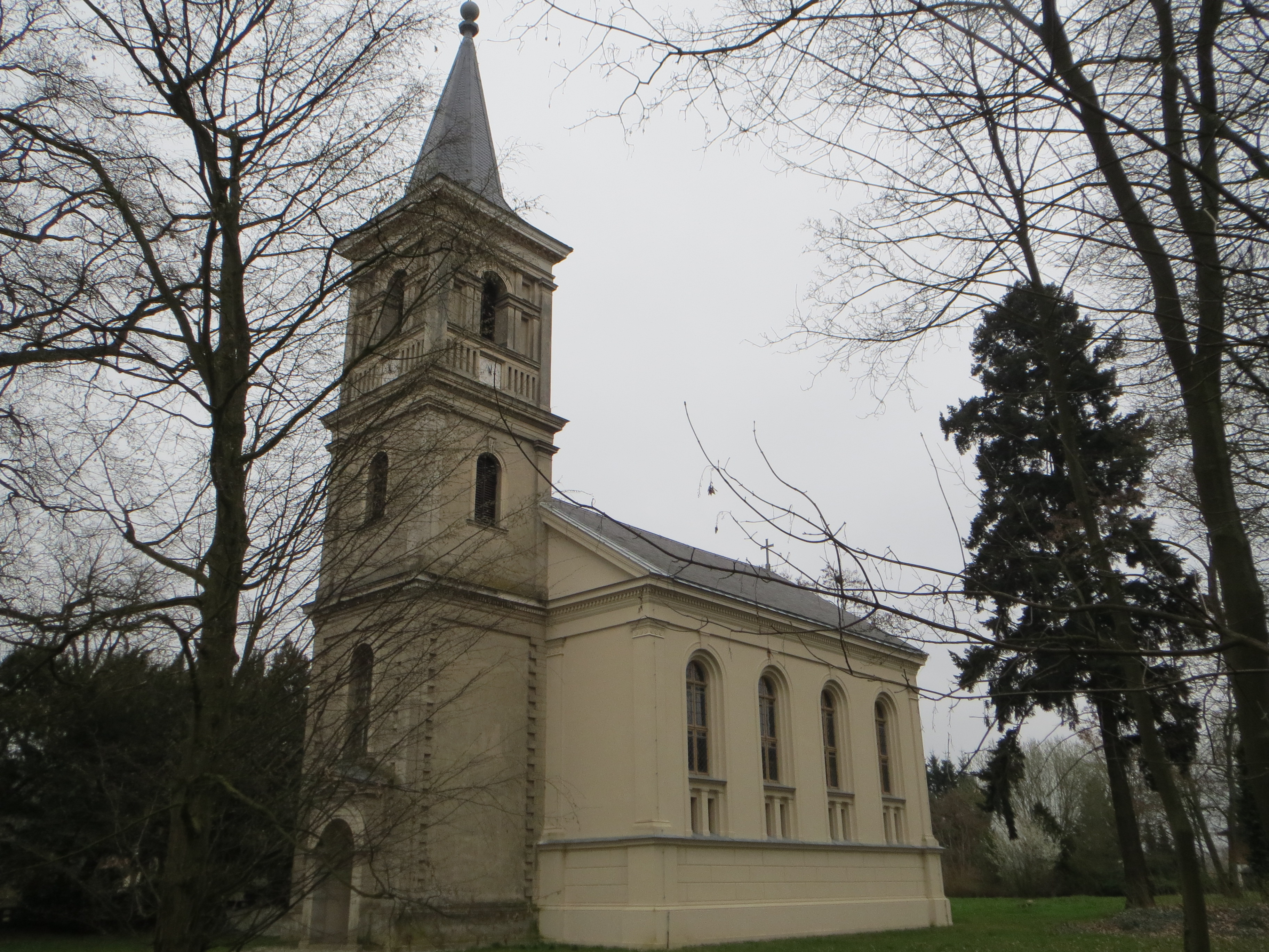 Church in Melkof